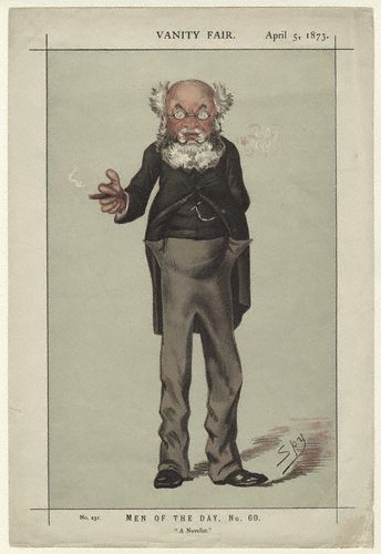 Caricature of Anthony Trollope. Caption read "A Novelist".